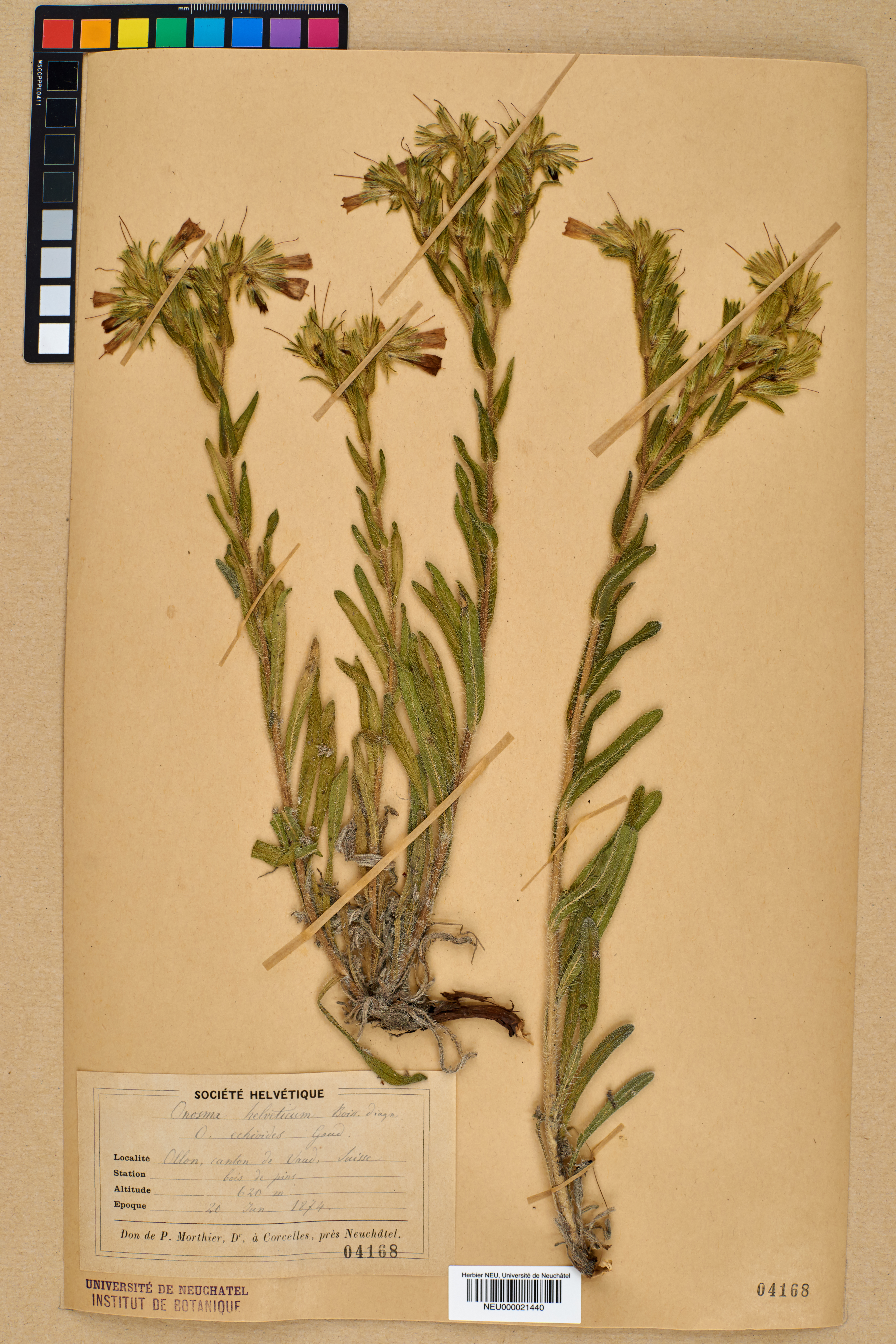 Dried pressed specimen of Onosma helvetica